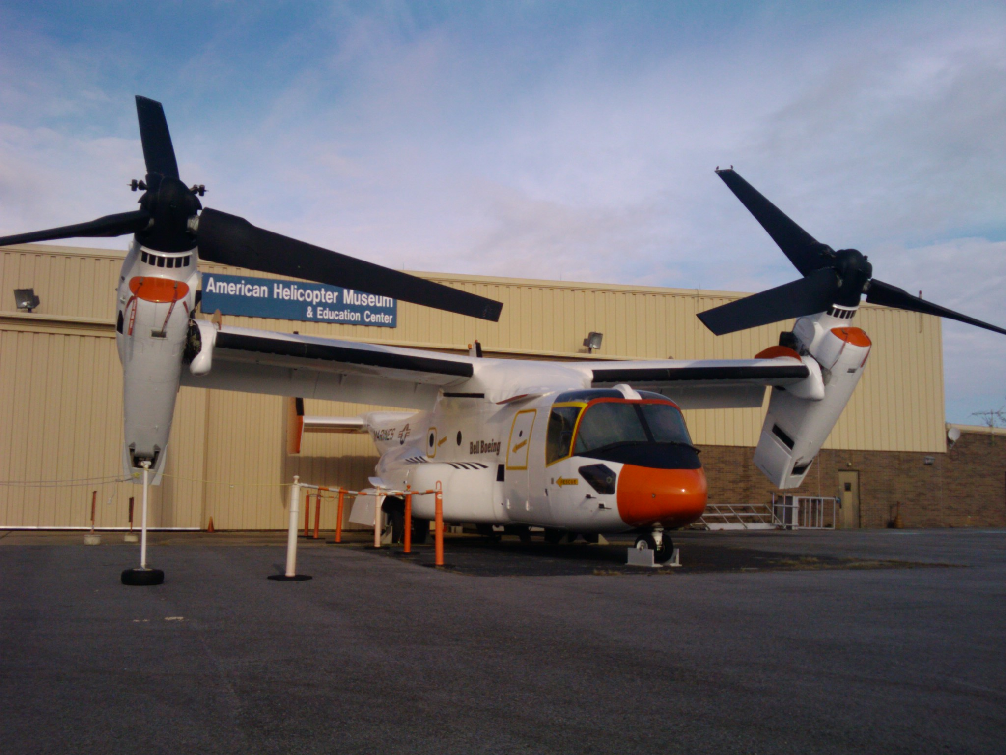 The V-22 Osprey on display at the American Helicopter Museum & Education Center.